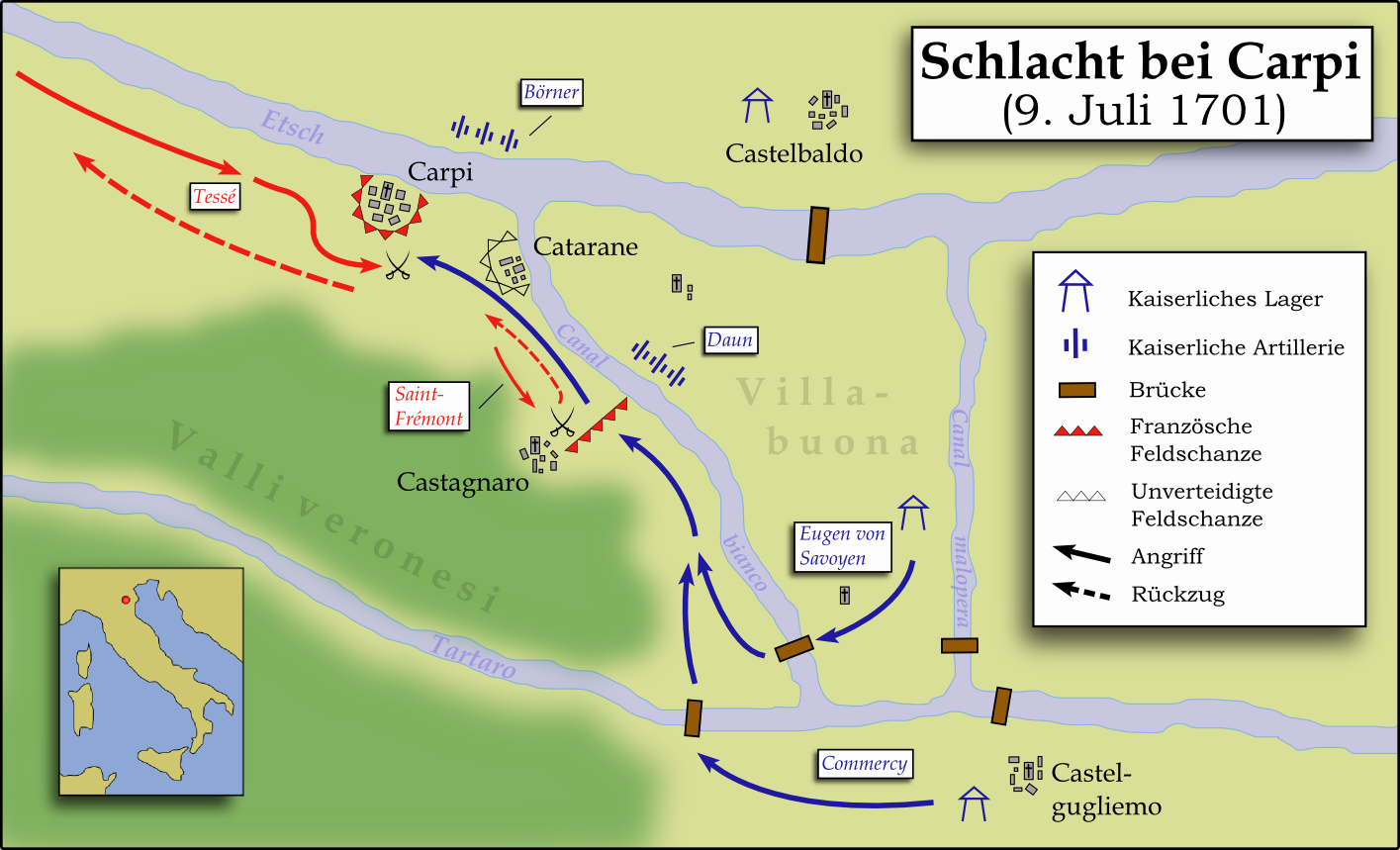 German map showing the Battle of Carpi, July 9th, 1701 during the War of the Spanish Succession (1701—1714). The work was created by Inkscape and is based on different contemporary prints as well as a map of the Austrian General Staff in Leander Heinrich Wetzler: Feldzüge des Prinzen Eugen von Savoyen, Bd. III, Wien 1876.